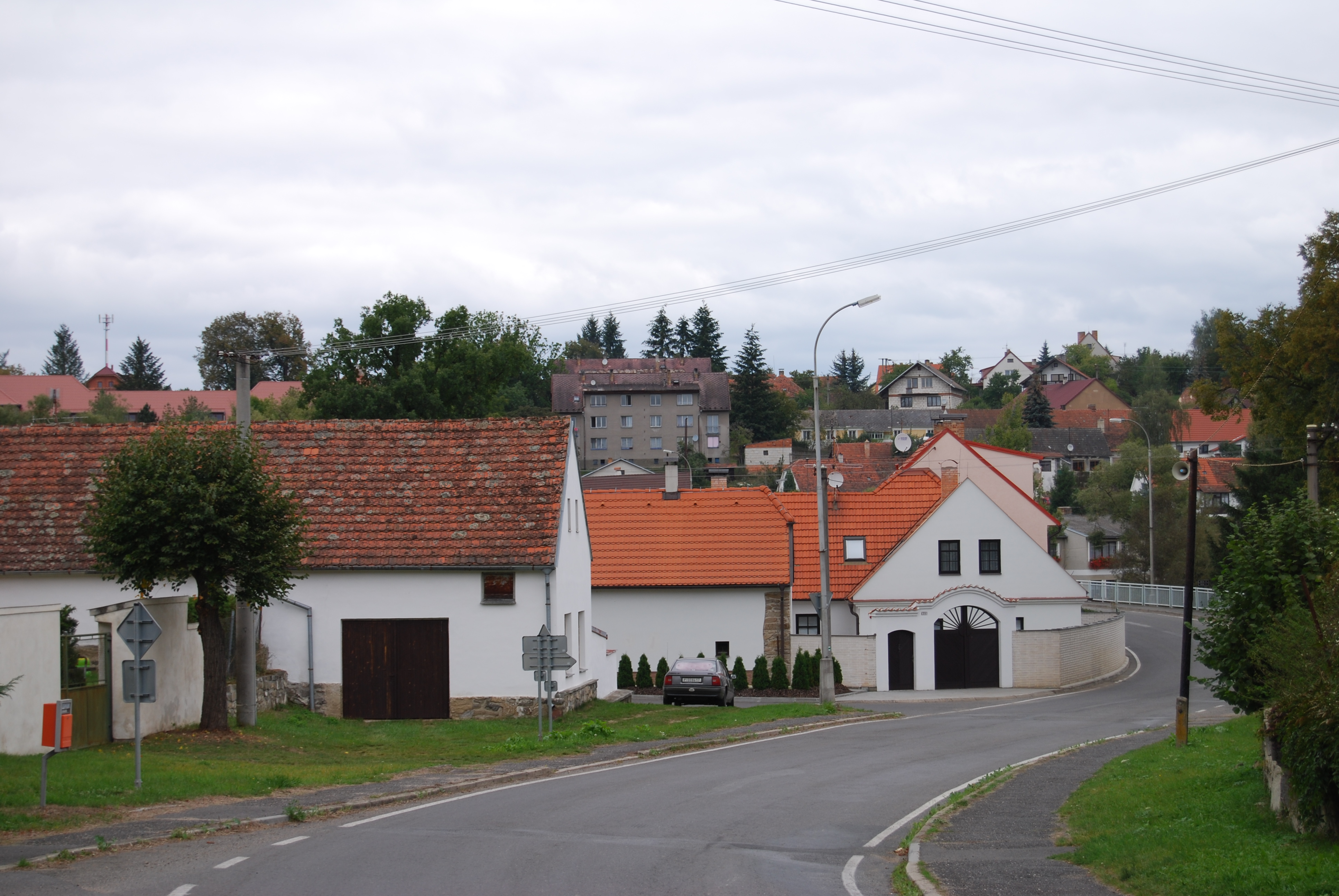 Ostrovec village in Pisek District, Czech Republic.